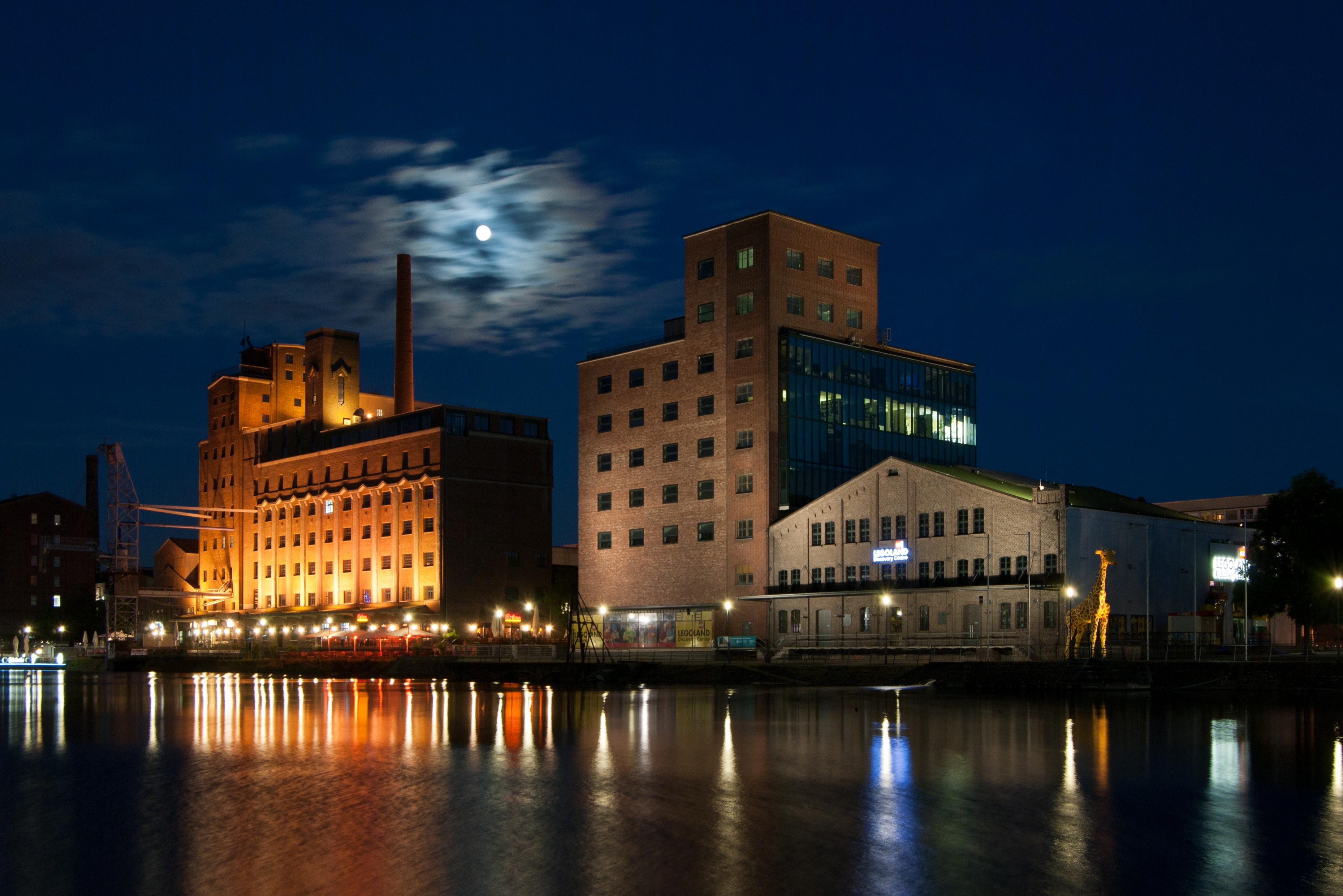 Duisburg (North Rhine-Westphalia, Germany) – Inner Harbour in the evening – Werhahnmühle and silo building with warehouse This image shows a heritage building in Germany, located in the North Rhine-Westphalian city Duisburg (no. 484, 488, 481, 487, 483). This photograph was taken with a Nikon D3000